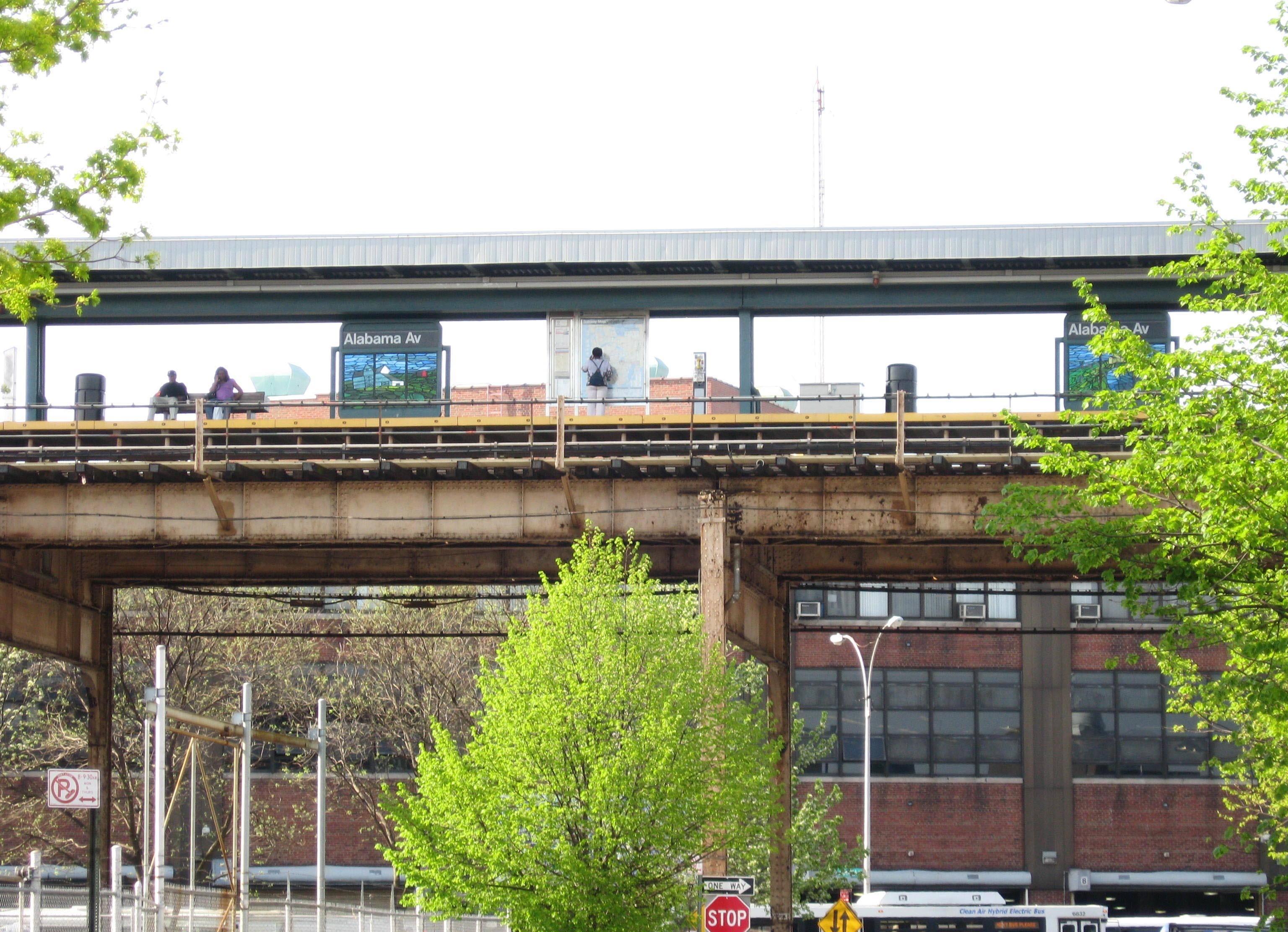 Looking north, zoomed, along Georgia Avenue at Alabama Avenue station of Jamaica Line on a sunny spring afternoon.